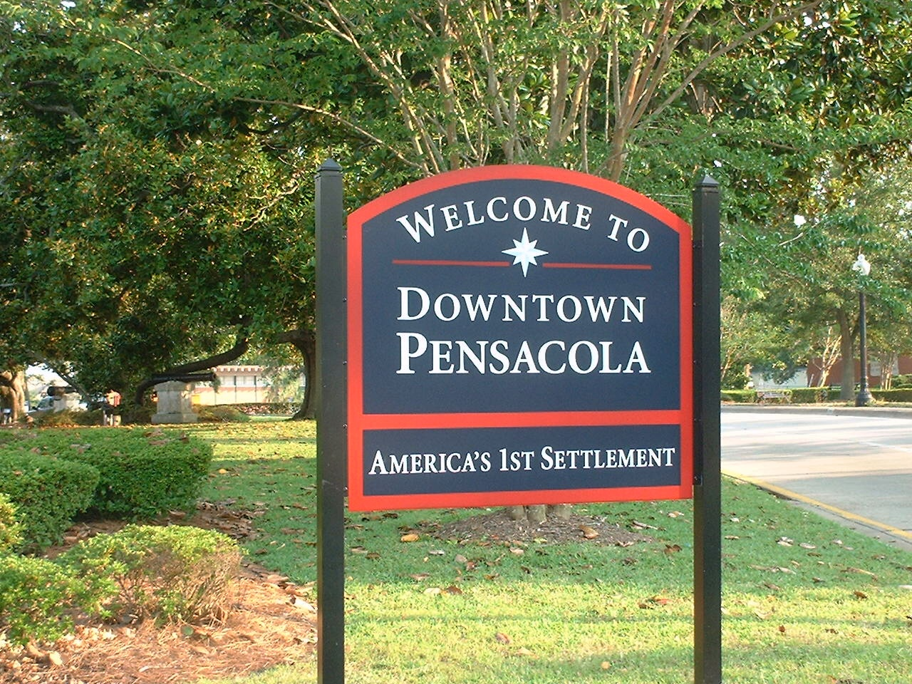 Downtown Pensacola sign, taken by me.